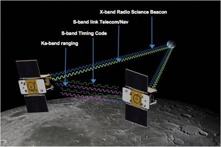 The Lunar Gravity Ranging System (LGRS) is the scientific payload of the GRAIL lunar spacecraft. The LGRS is responsible for sending and receiving the signals needed to accurately and precisely measure the changes in range between the two orbiters. The LGRS consists of an Ultra-Stable Oscillator (USO), Microwave Assembly (MWA), a Time-Transfer Assembly (TTA), and the Gravity Recovery Processor Assembly (GPA). The USO provides a steady reference signal that is used by all of the instrument subsystems. Within the LGRS, the USO provides the reference frequency for the MWA and the TTA. The MWA converts the USO reference signal to the Ka-band frequency, which is transmitted to the other orbiter. The function of the TTA is to provide a two-way time-transfer link between the spacecraft to both synchronize and measure the clock offset between the two LGRS clocks. The TTA generates an S-band signal from the USO reference frequency and sends a GPS-like ranging code to the other spacecraft. The GPA combines all the inputs received from the MWA and TTA to produce the radiometric data that is downlinked to the ground. In addition to acquiring the inter-spacecraft measurements, the LGRS also provides a one-way signal to the ground based on the USO, and is transmitted via the X-band Radio Science Beacon (RSB). The steady-state drift of the USO is measured via the one-way Doppler data provided by the RSB.